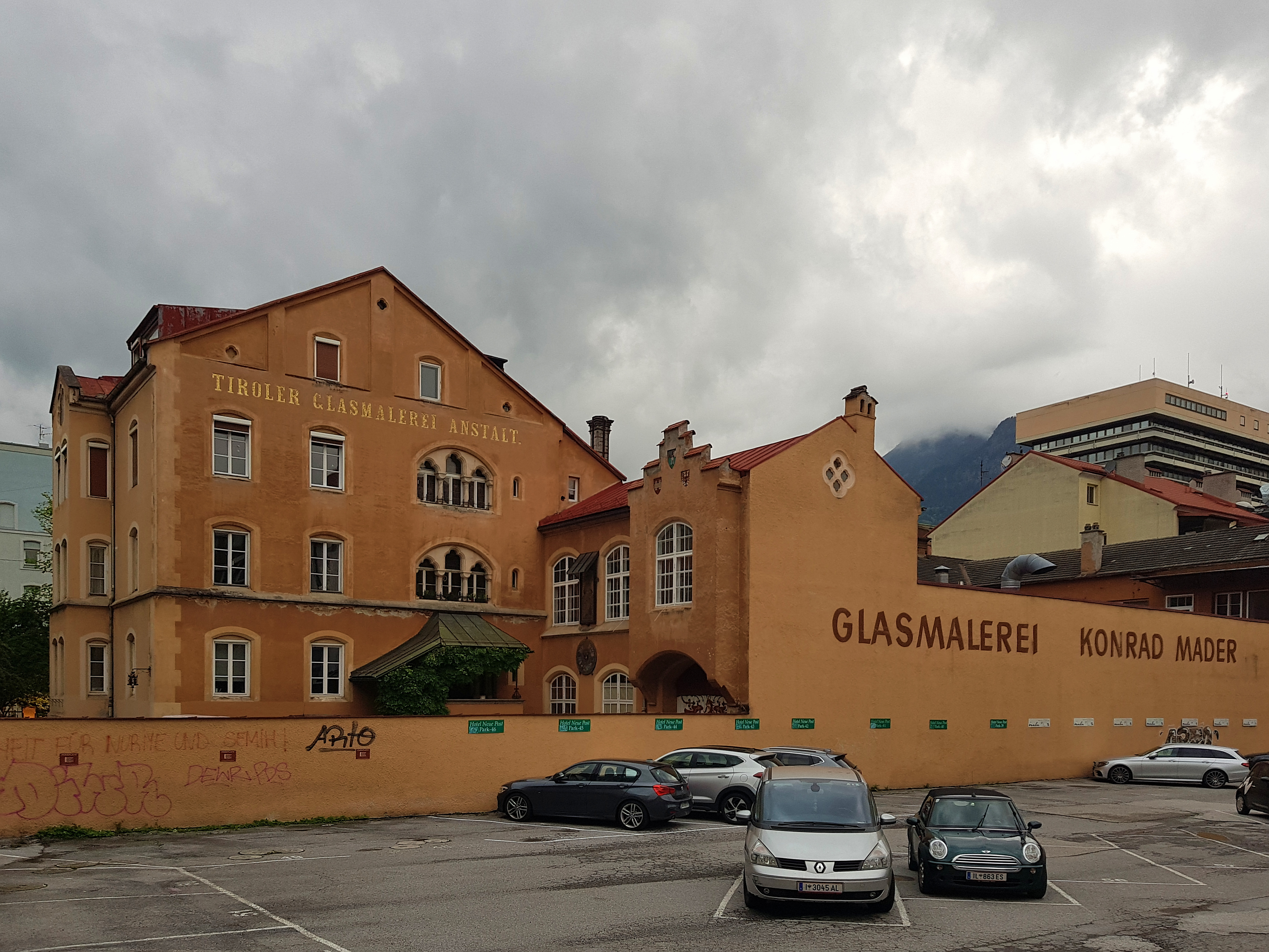 Tiroler Glasmalereianstalt